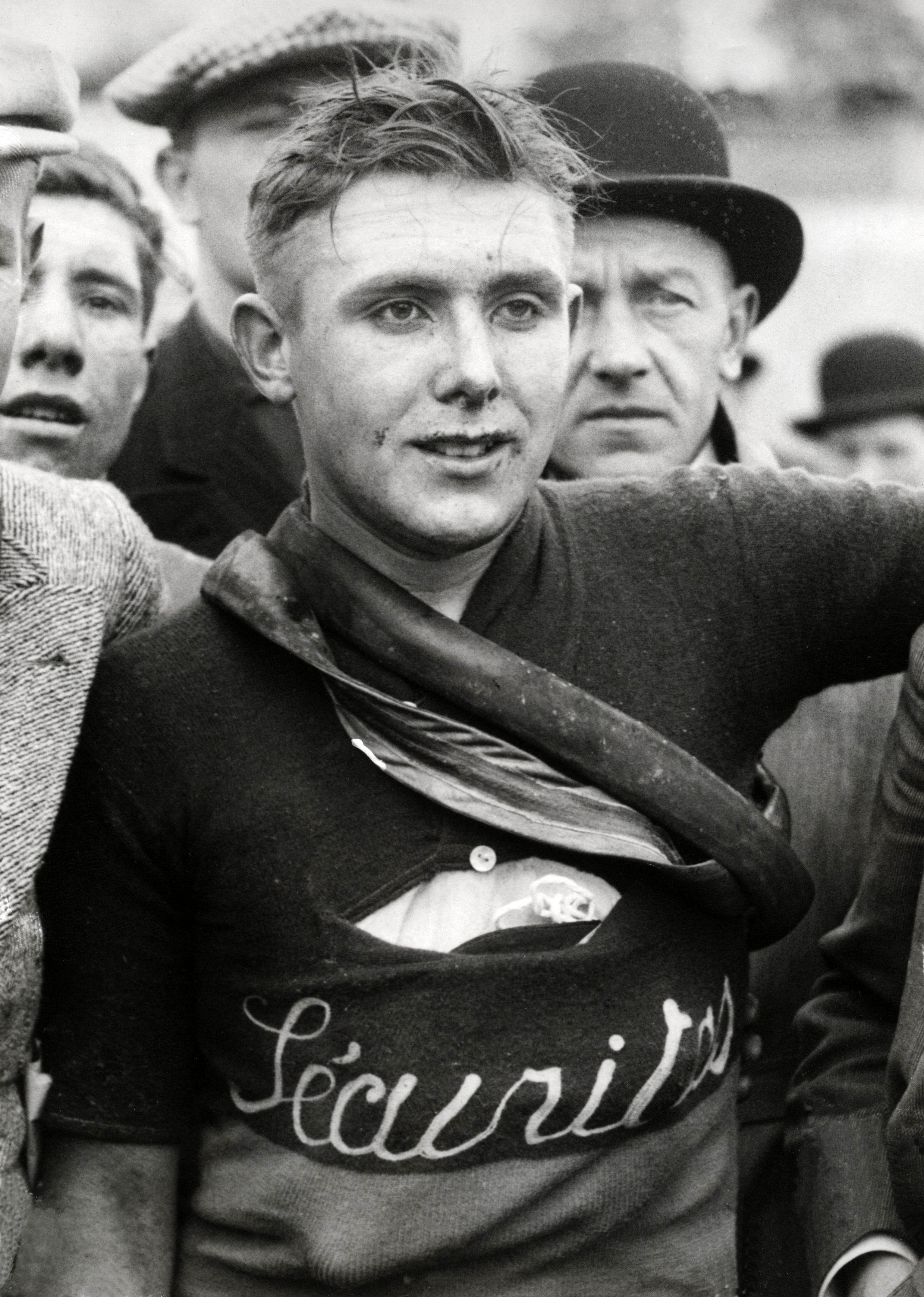 Edgard De Caluwé, racing cyclist. "De grote Belofte". Tour Of Flanders, 1933.